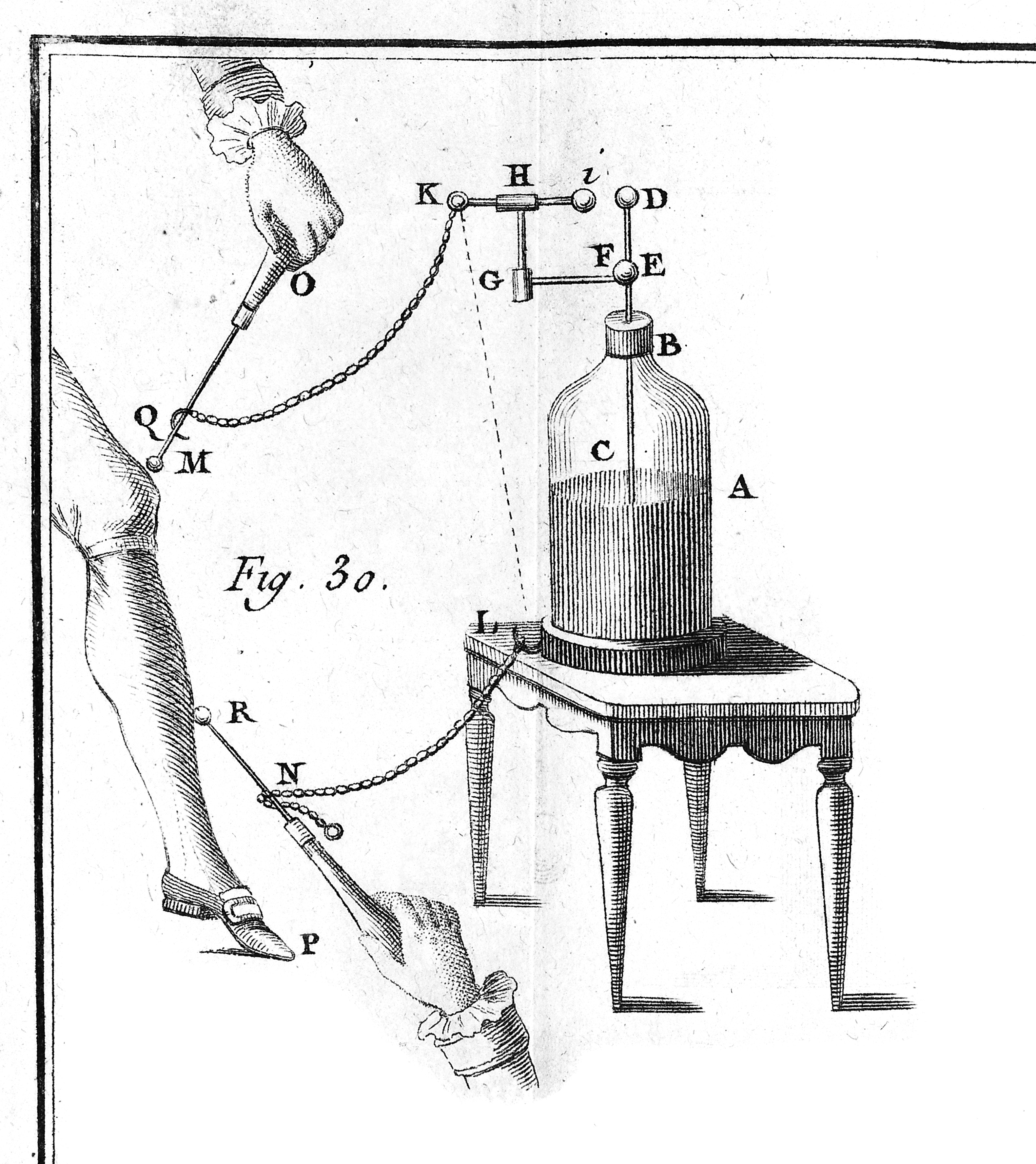 Apparatus for applying an electric shock. Showing Leyden jar, Lane's electrometer and 'directors' or conductors. Rare Books Keywords: Electrotherapy